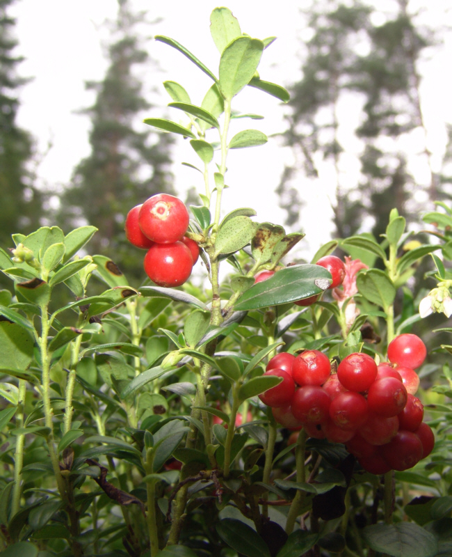 cowberries